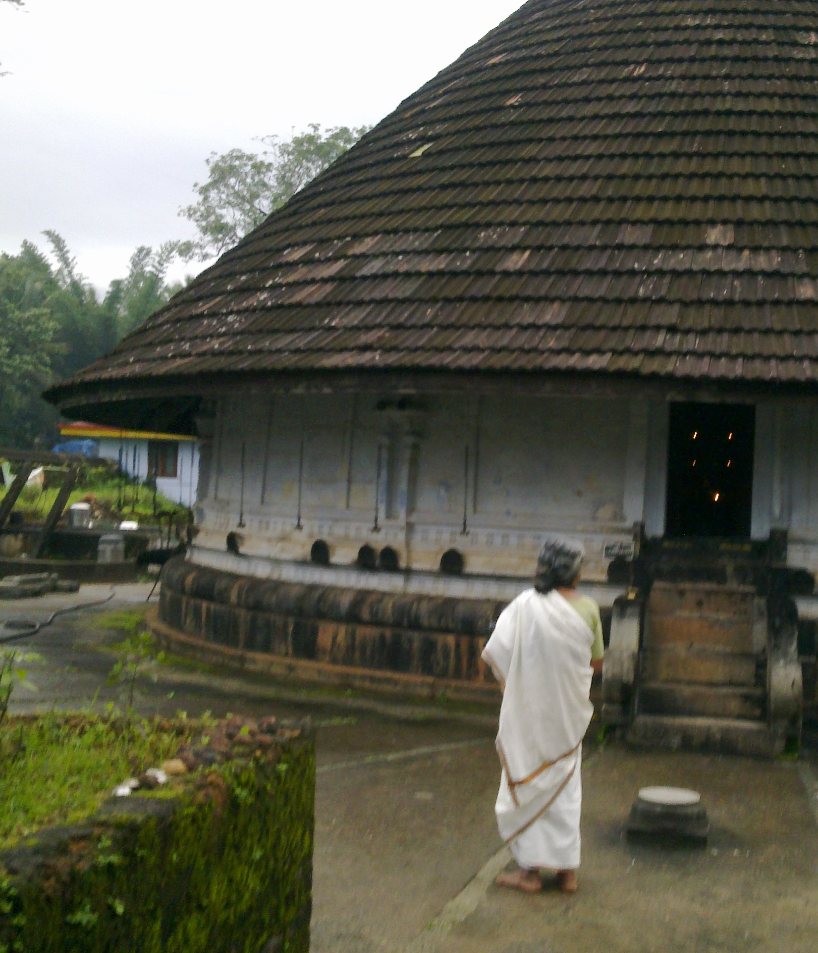 Pannithadam Mathoor Siva Temple പന്നിതടം മാത്തൂർ ശിവക്ഷേത്രം